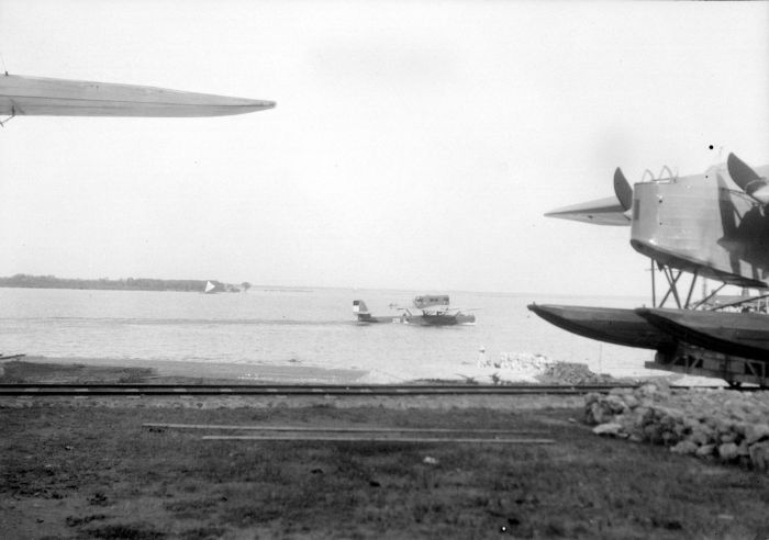 Dornier Wal and Fokker T-IV aircrafts at the base of the MLD